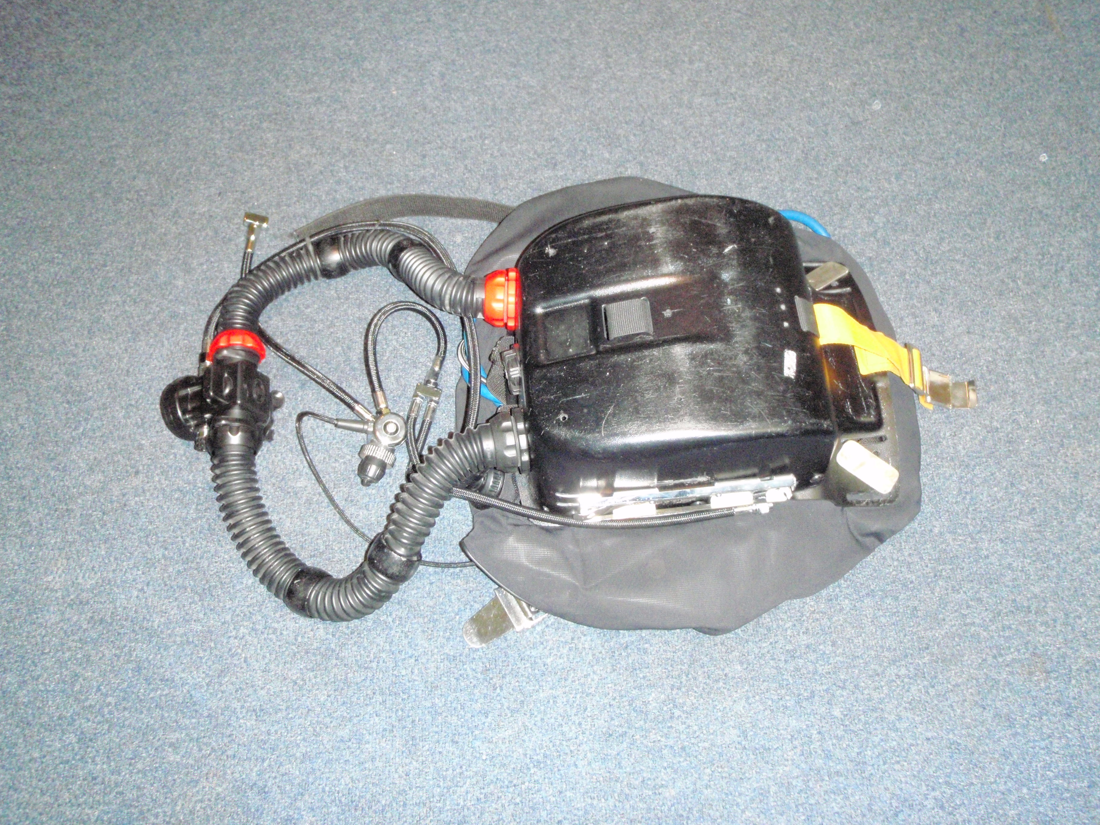 Upper side view of partially assembled modified Draeger Dolphin rebreather